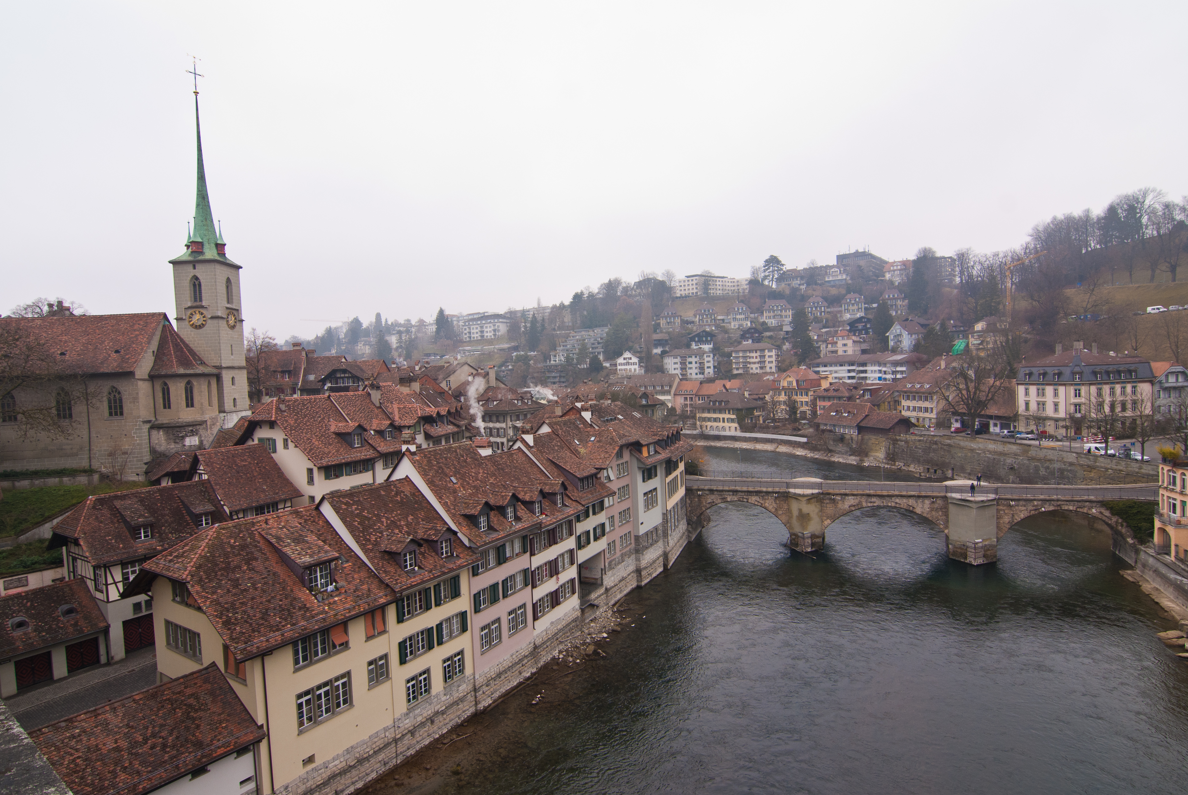 A view of the old city